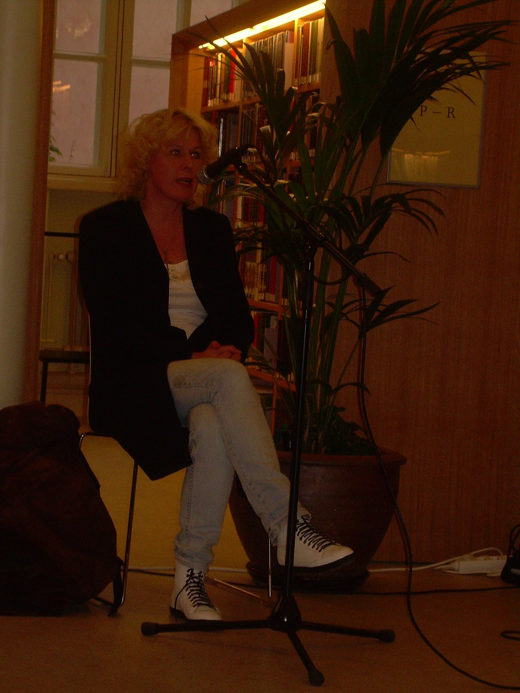 Finnish writer Leena Lander at Turku Main Library.